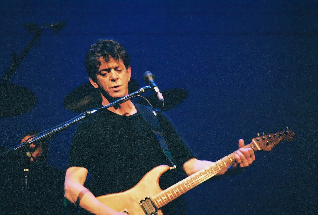 Lou Reed. Schinitzer Concert Hall Portland, OR